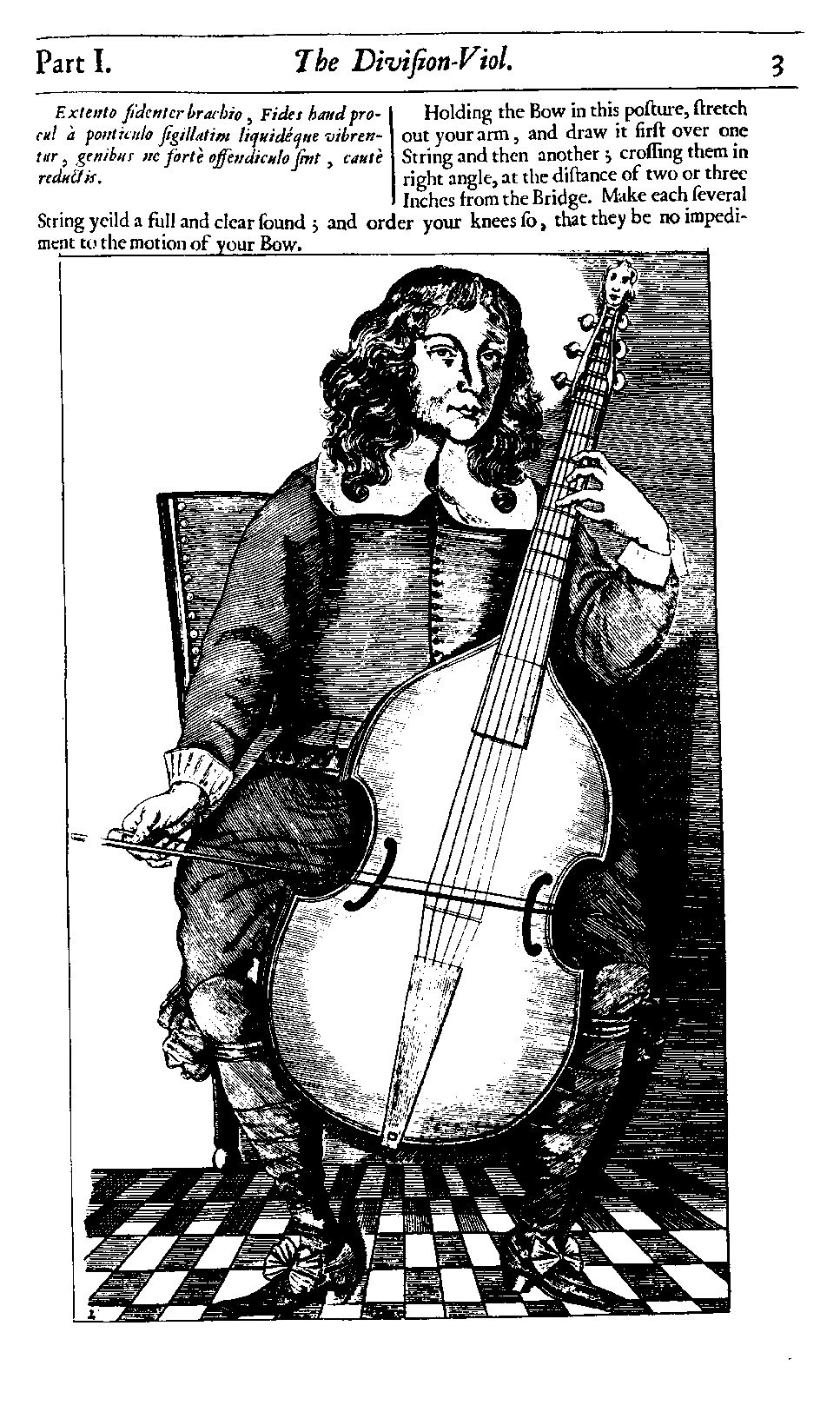 A page from The Division-viol by Christopher Simpson